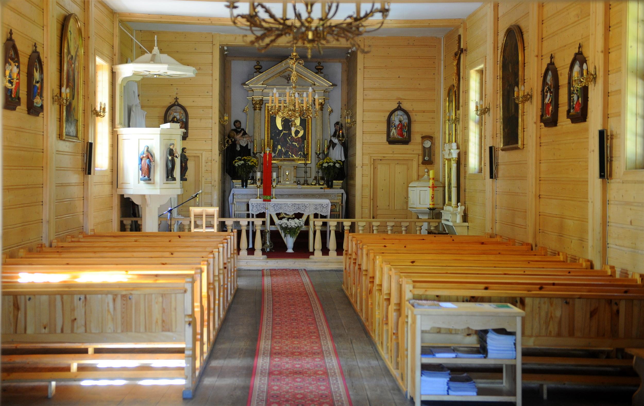 The church of St Michael Archangel, Warsaw